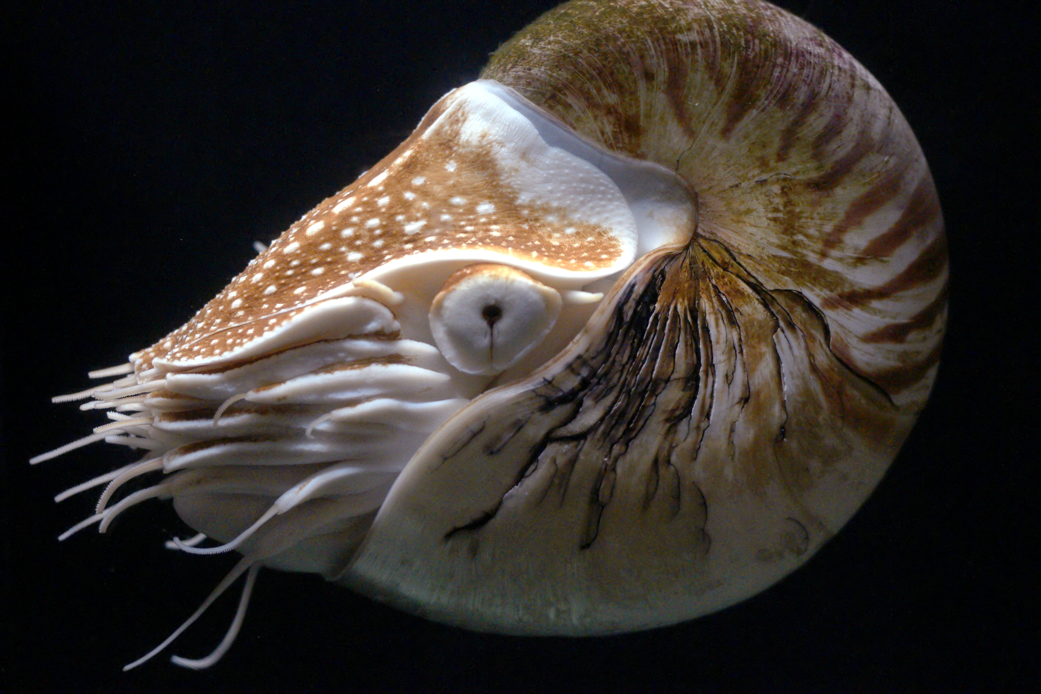 Chambered Nautilus, at Pairi Daiza, Brugelette, Belgium